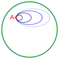 Homotopy in a convex set